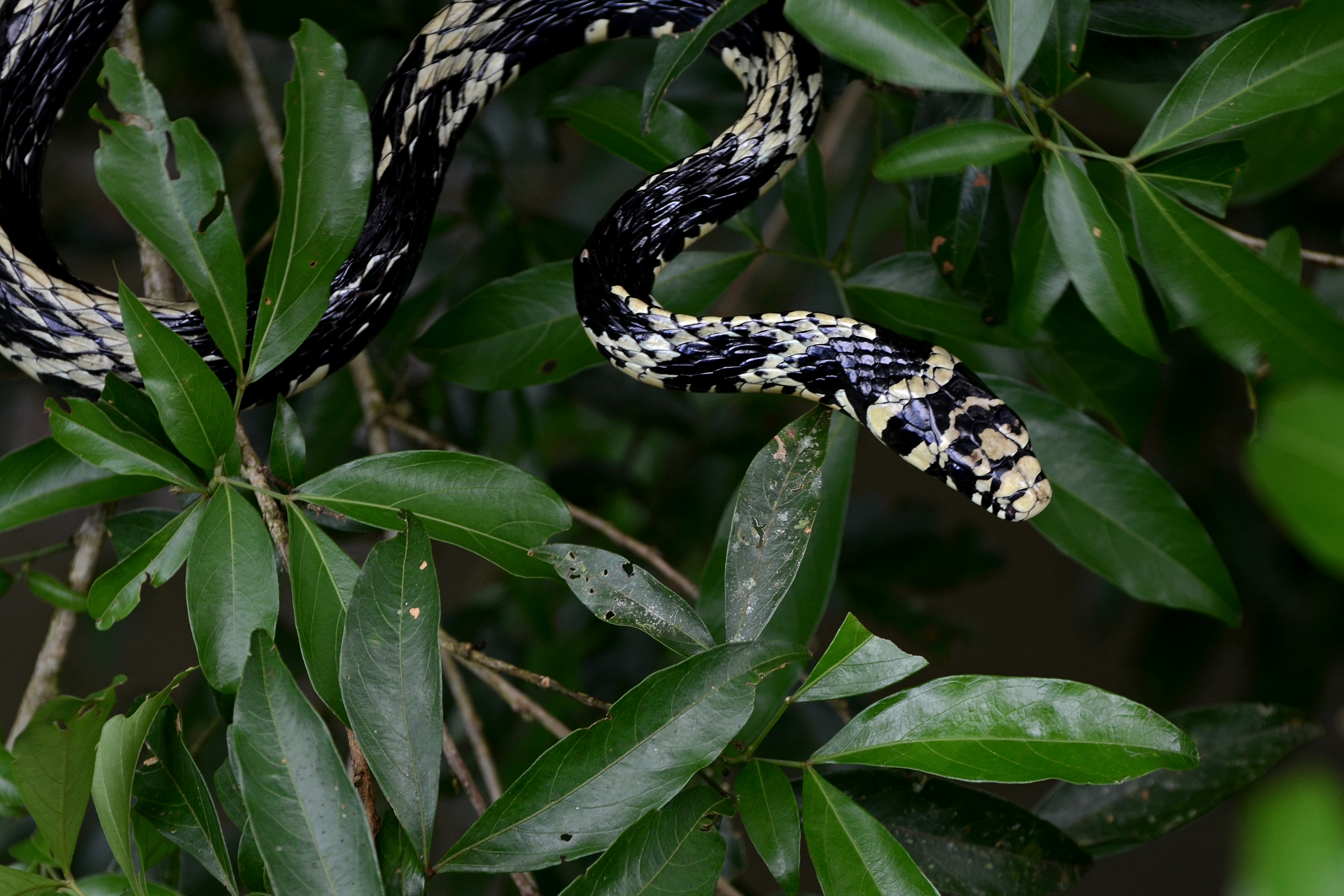 A Tigre snake (Spilotes pullatus) at La Selva Biological Station, Sarapiqui, Costa Rica.